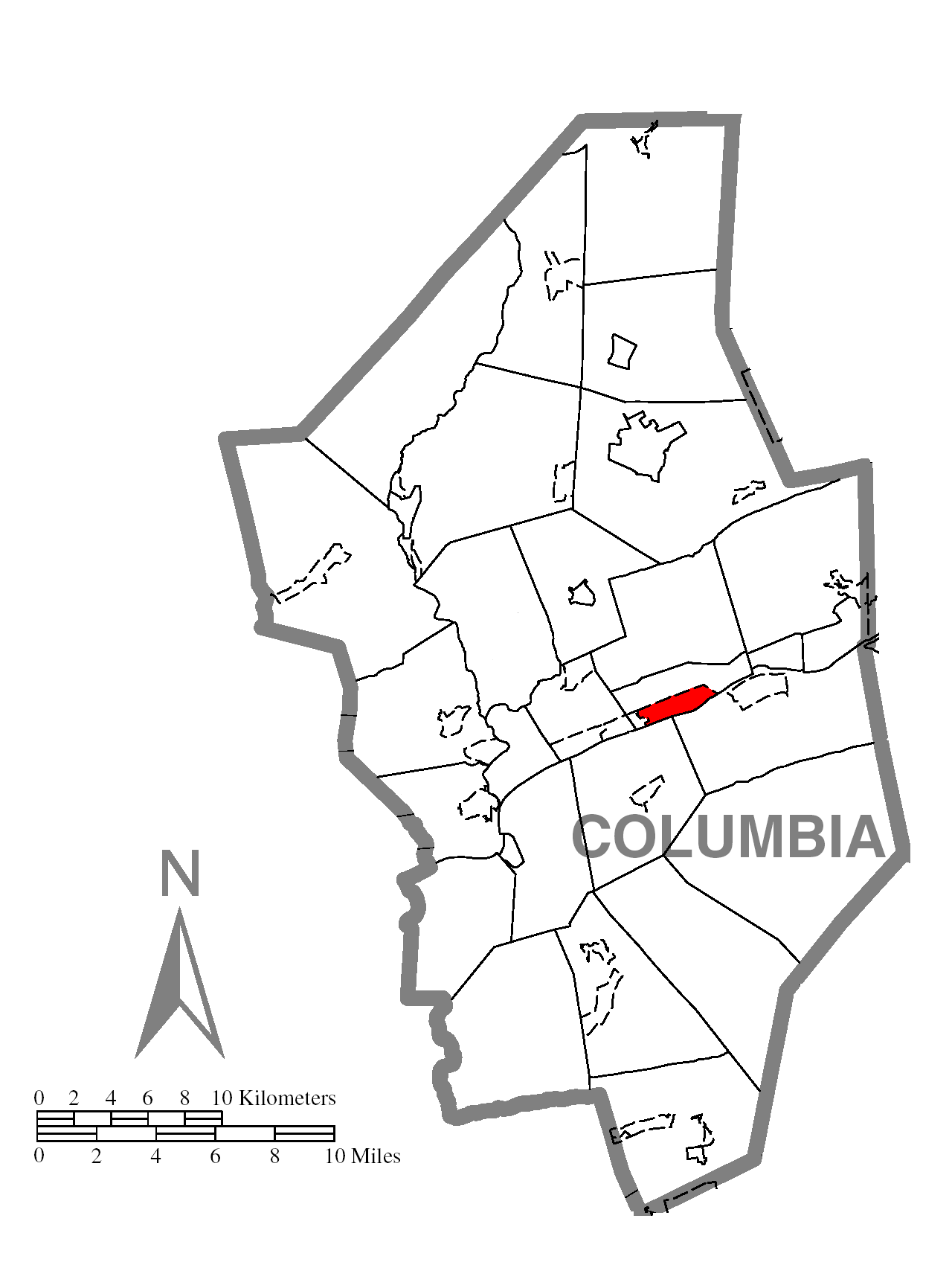 A map of Columbia County showing Lime Ridge, Pennsylvania (alternate) highlighted on the map.